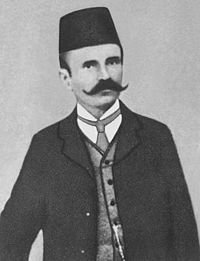 Petro Nini Luarasi in a photo